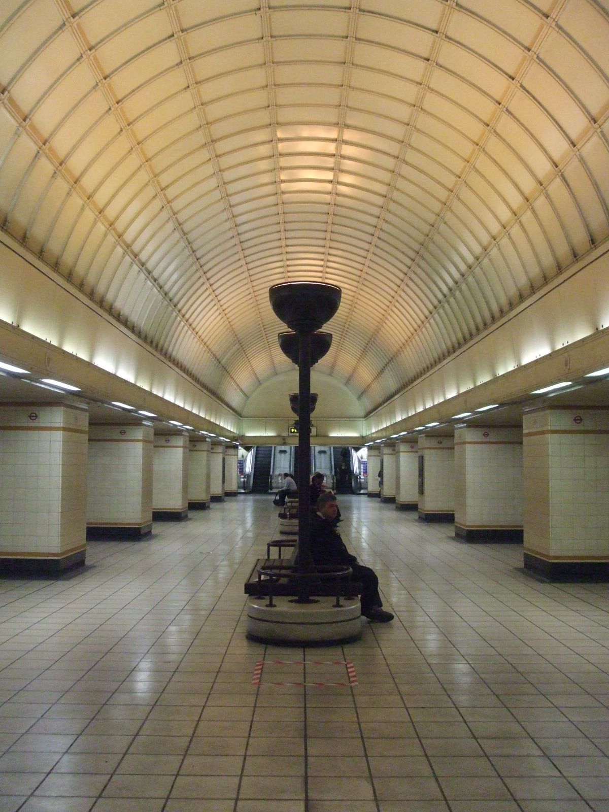 Gants Hill tube station lower concourse, in between the platforms. Apparently inspired by the Moscow Metro.